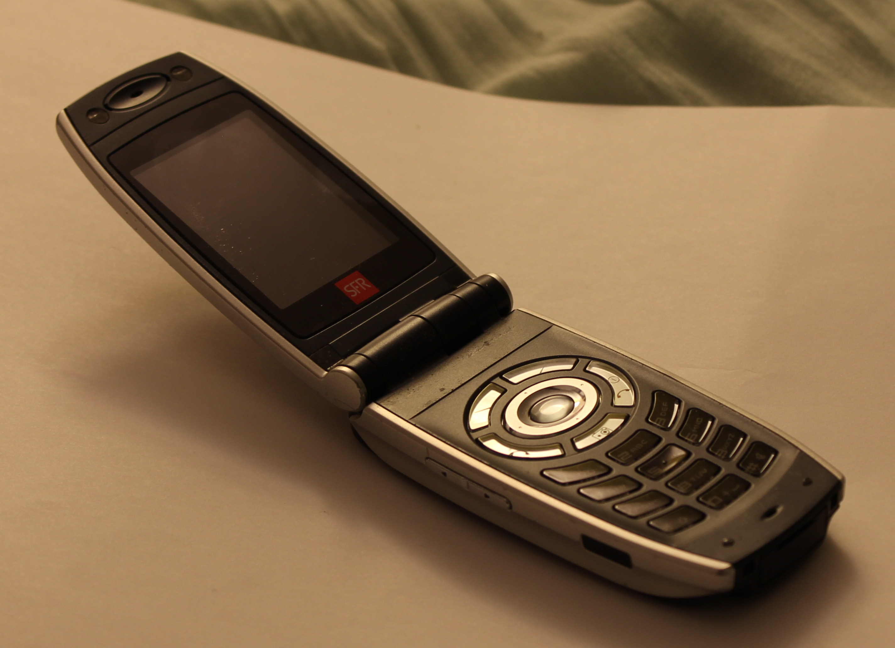 Photo of an old Sharp GX25 mobile phone (unfolded). Sold by SFR with a plan.